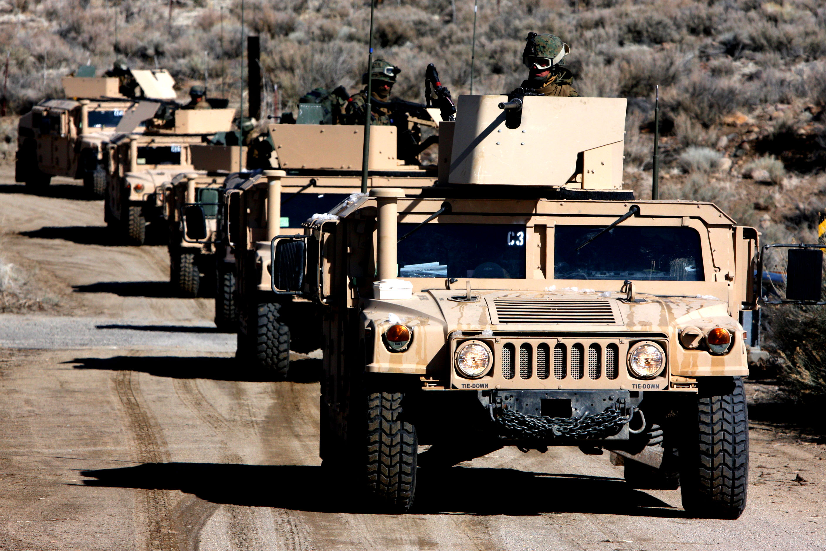 U.S. Marines and sailors conduct a 35-mile convoy training exercise from Bridgeport, Calif., to Hawthorne Army Ammunition Depot in Hawthorne, Nev., March 7, 2009. The Marines and sailors are assigned to Weapons Company, 3rd Battalion, 4th Marine Regiment.